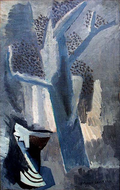 Title: Tree and Urn Date: (1921)